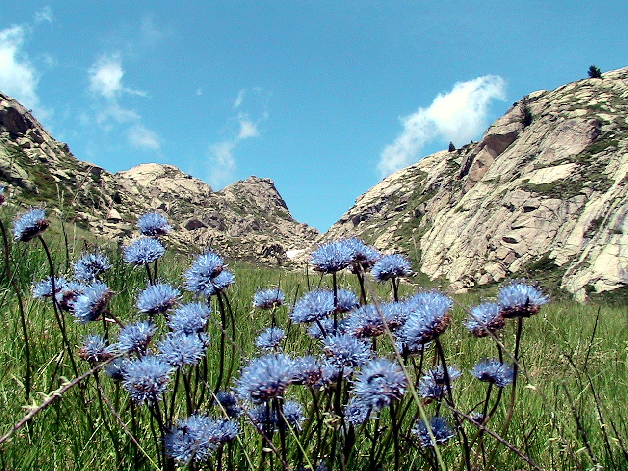 Jasione crispa. In Estany Tort, Cabdella (Pallars Jussà - Catalunya). To 2.305 m. altitude